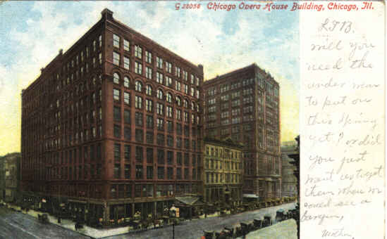 Postcard of Chicago Opera House c. 1900